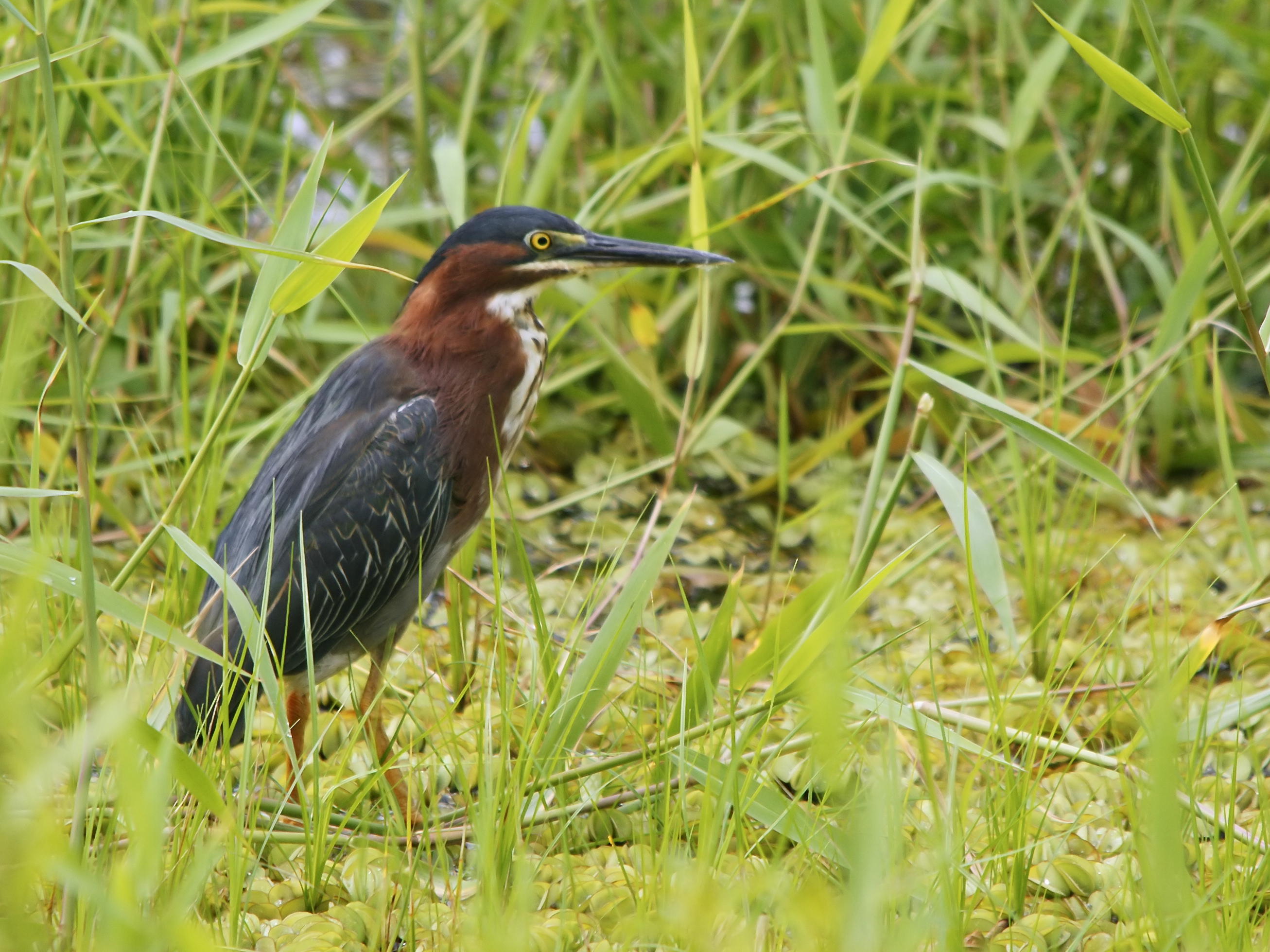 Green Heron east of Caño Negro, Costa Rica